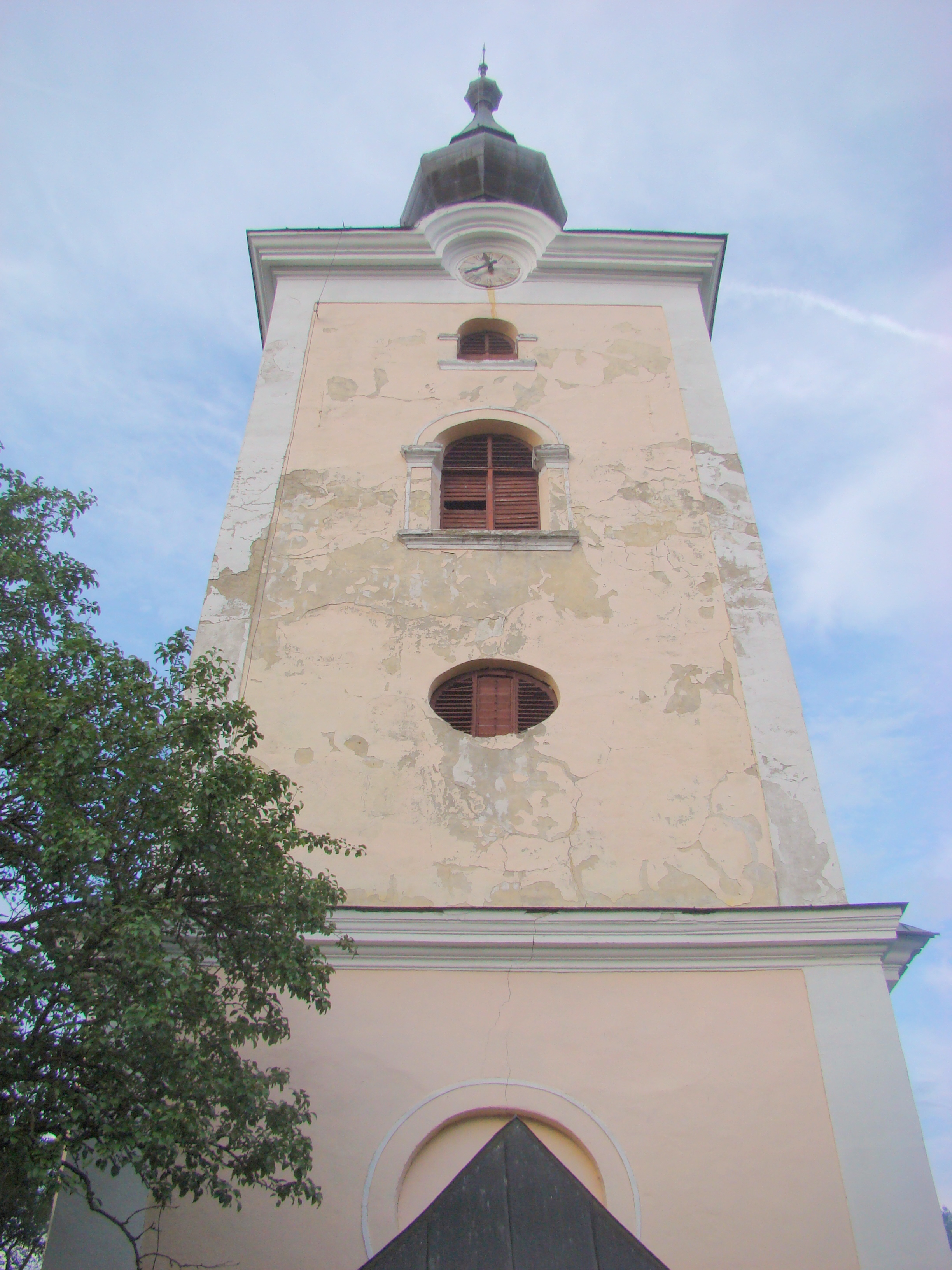 Fortified church in Ticușu Vechi, Brașov County, Romania